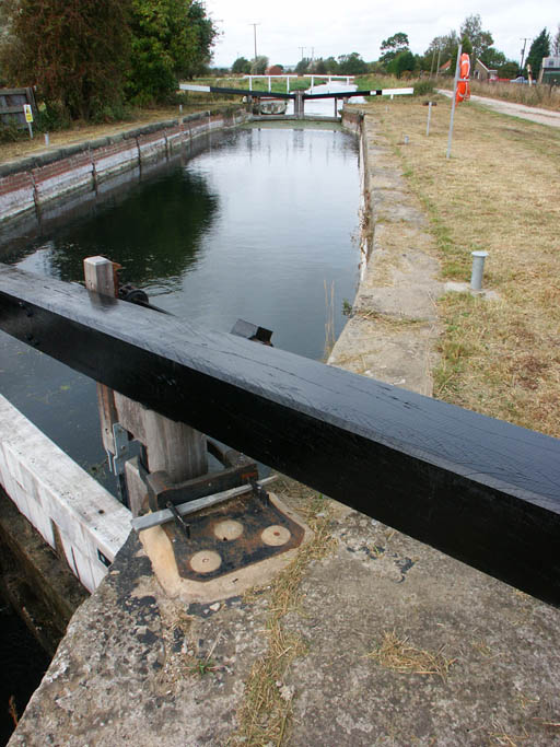 The newly restored Snakeholme Lock near Wansford, East Riding of Yorkshire, England.(Michael Askin)